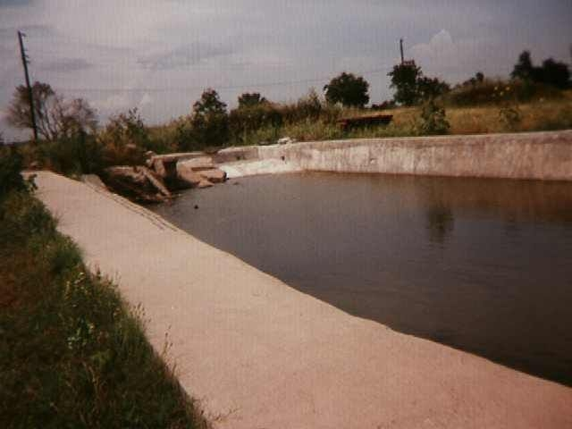 Mount Carmel (Branch Davidian compound site), near Waco, TX, 1997. Pool.